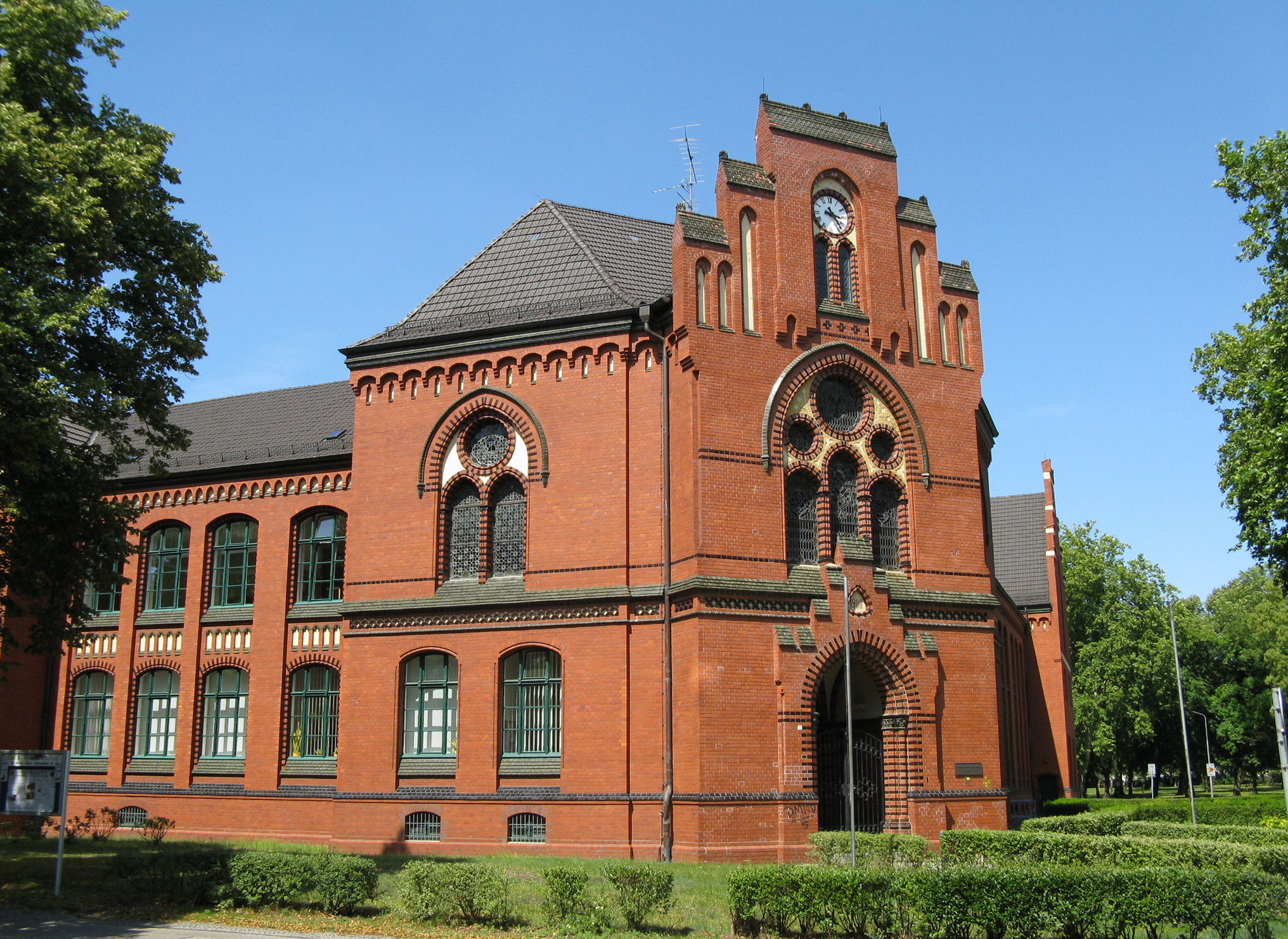 School Marie-Curie-Gymnasium (Building 1) in Wittenberge, disctrict Prignitz, Brandenburg, Germany